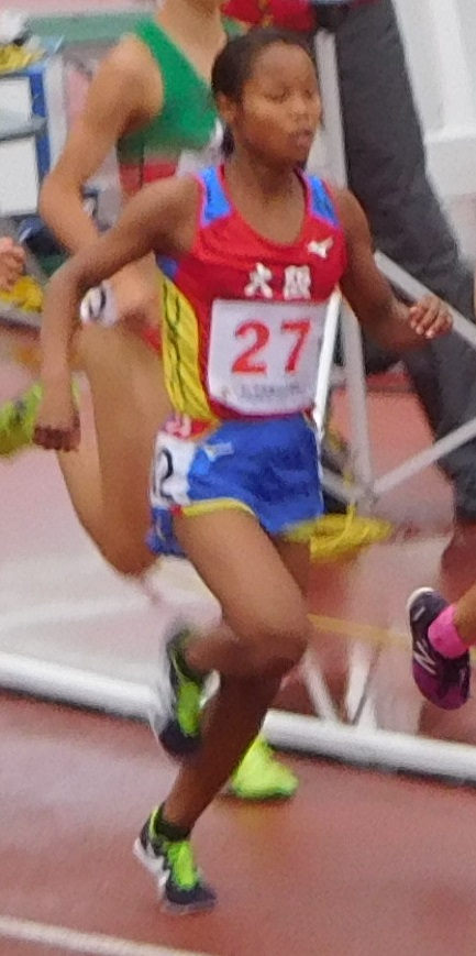 Tomomi Musembi Takamatsu is running at the 74th National Sports Festival of Japan.